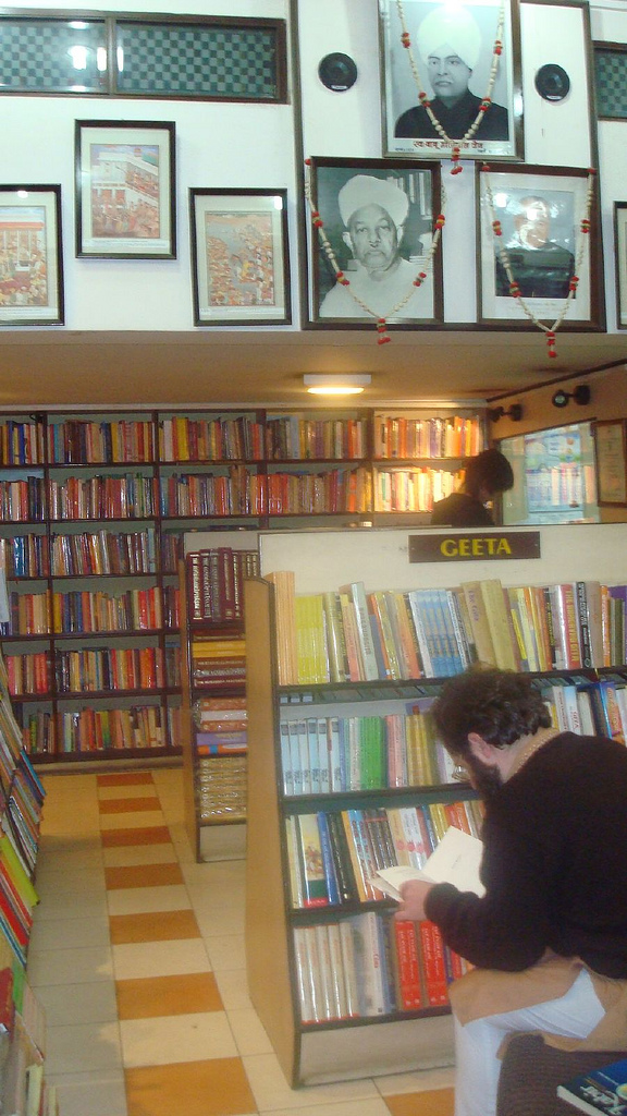 The interior of Motilal Banarsidass bookstore